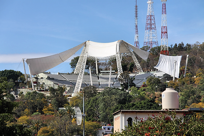 The new Auditorio Guelaguetza in Oaxaca, OAX, Mexico.